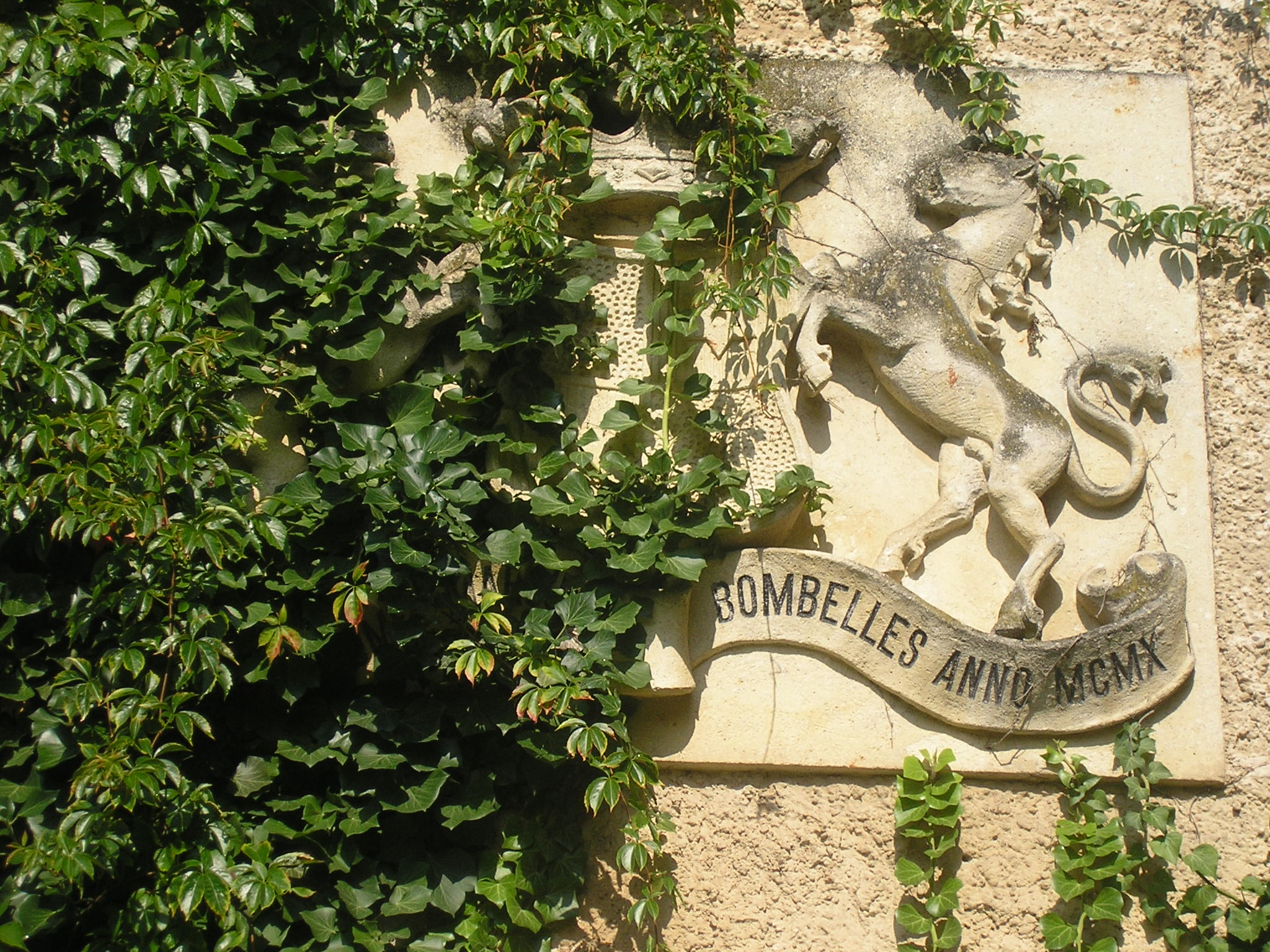 Crest of family Bombelles, Opeka Manor, Vinica municipality, Varaždin county, Croatia